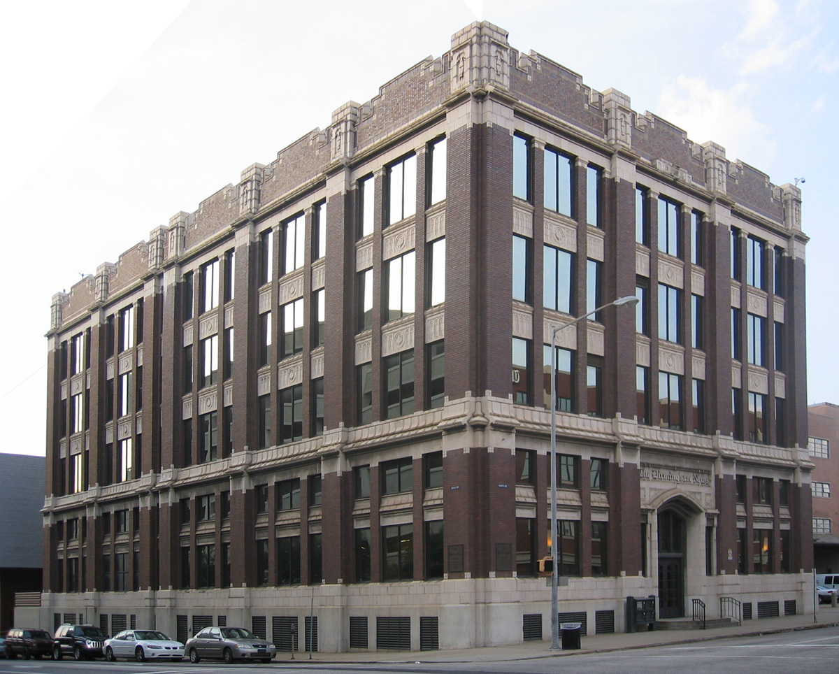 Photograph of the 1917 Birmingham News building in Birmingham, Alabama (USA) by Warren & Knight, Architects